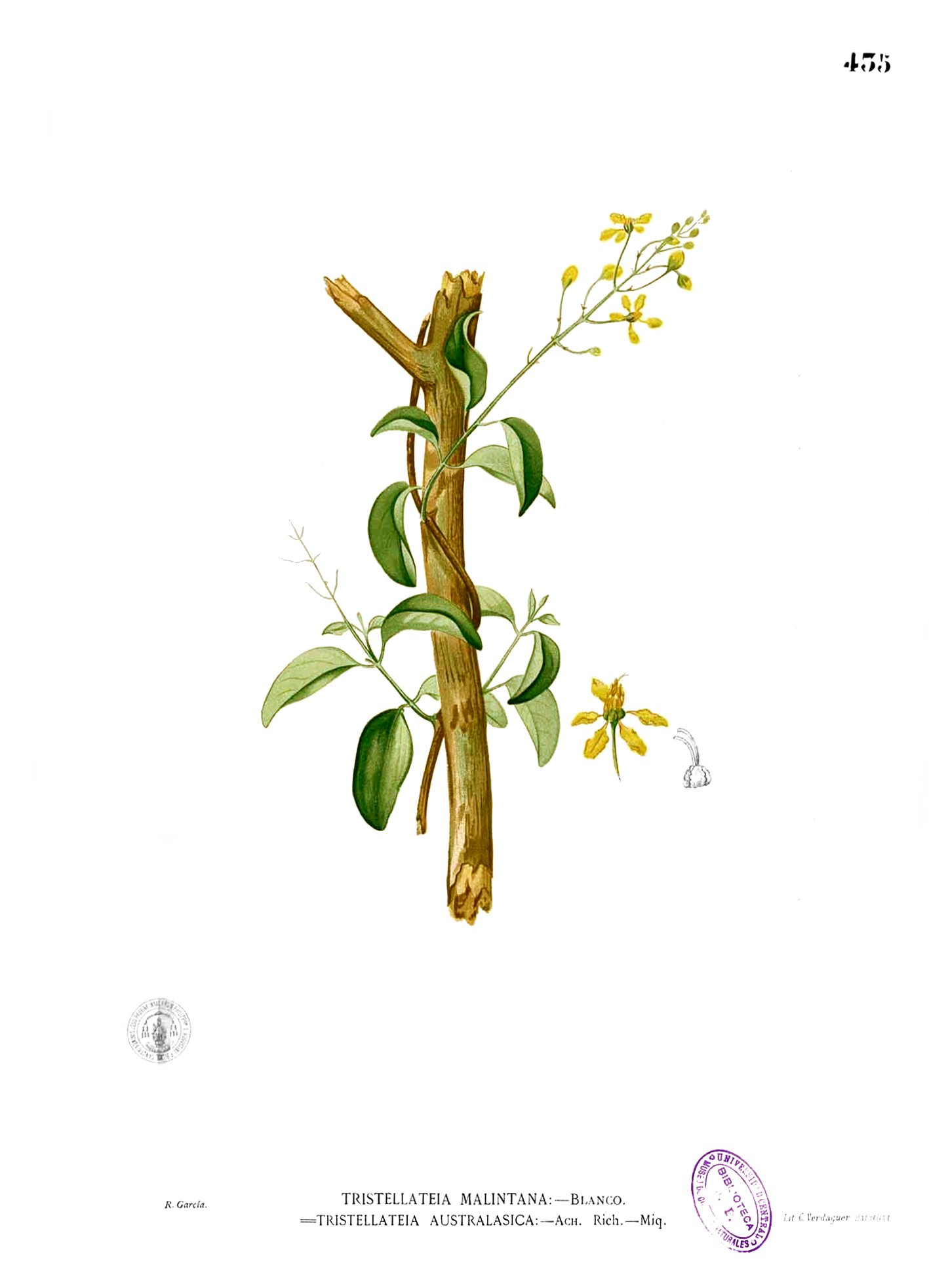 Plate from book